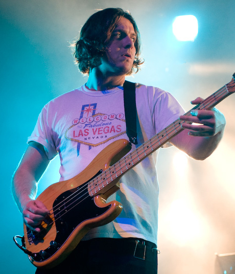 Weekly Dig